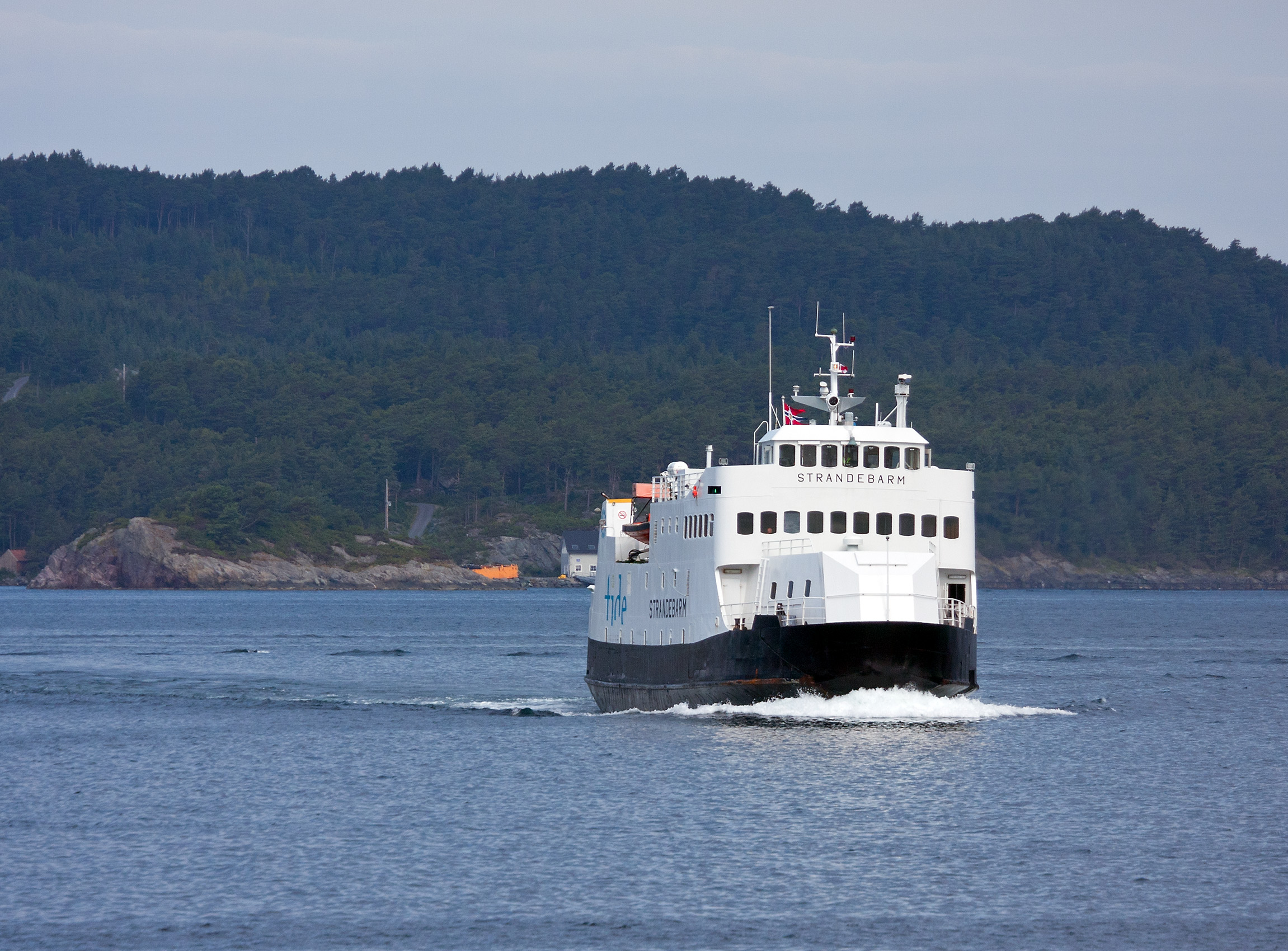 Ferry Strandebarm in Norway.